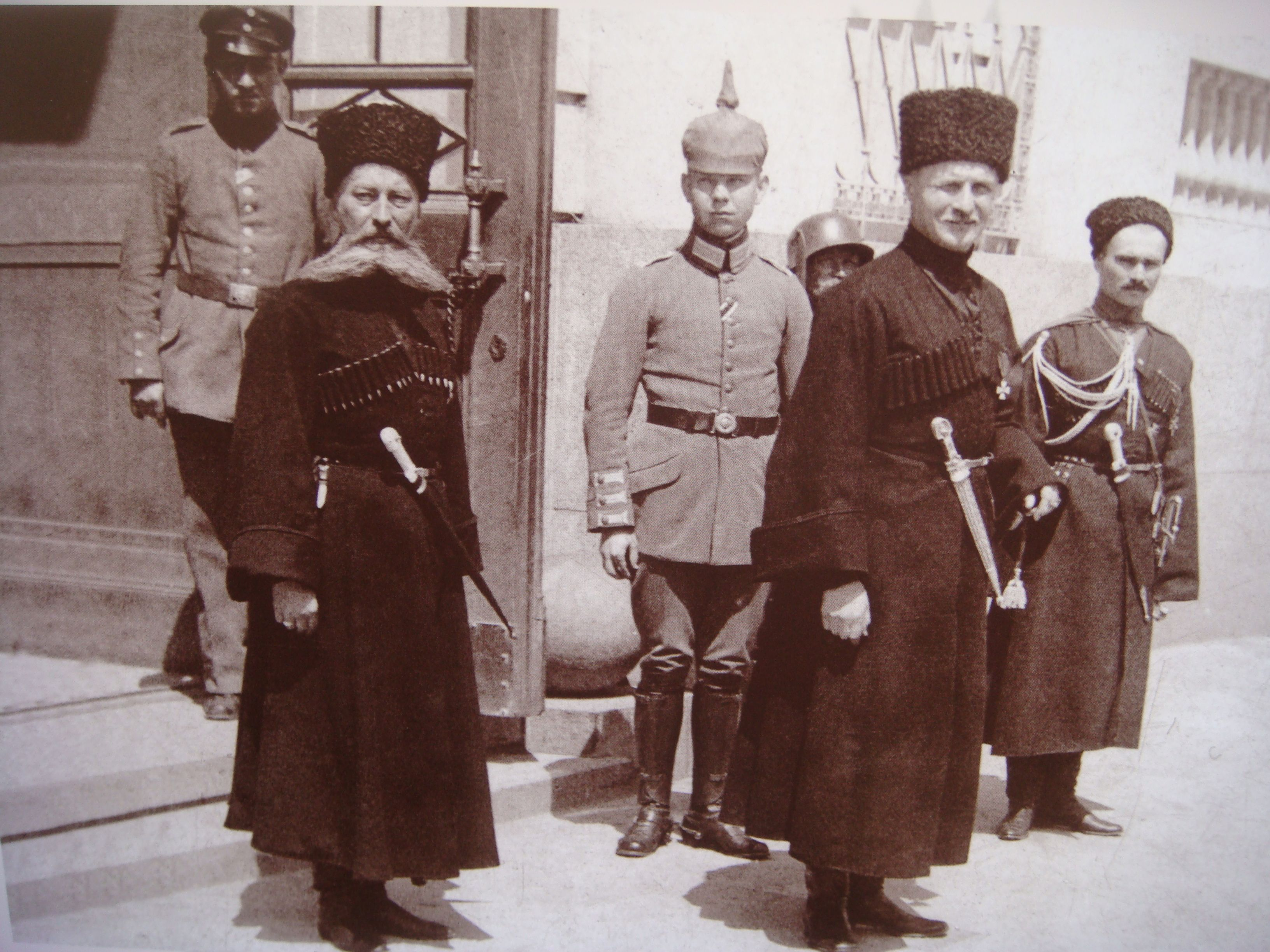 Hetman of "Ukrainska Derzhava" State(constructed by Germans) Pavel Skoropadsky (front right)